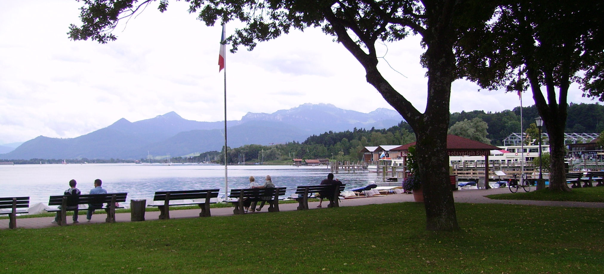 Prien at the Chiemsee, Germany